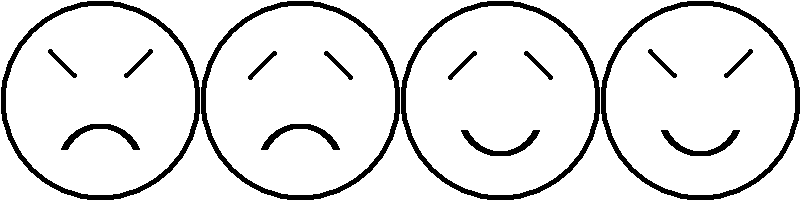 Four simple smiley-like emoticons representing the four temperaments (choleric, melancholic, phlegmatic and sanguine), by the tilt of the eyes and the curve of the mouth. These two features seem to represent high/low energy, resp. positive/negative humours. I created the graphics file myself, but I do not know the source of this idea. As the four temperaments may not be represented absolutely convincingly by these four figures, their merit lies in their simplicity. If you can improve on these four figures without compromising their simplicity, please do so and replace my file!